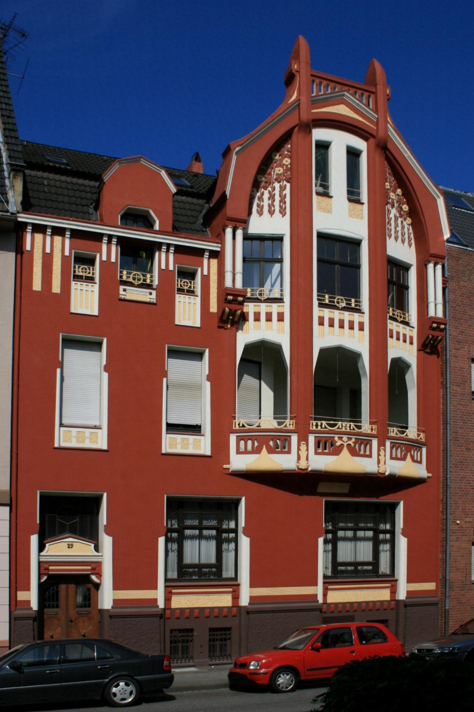 Cultural heritage monument No. W 030 in Mönchengladbach